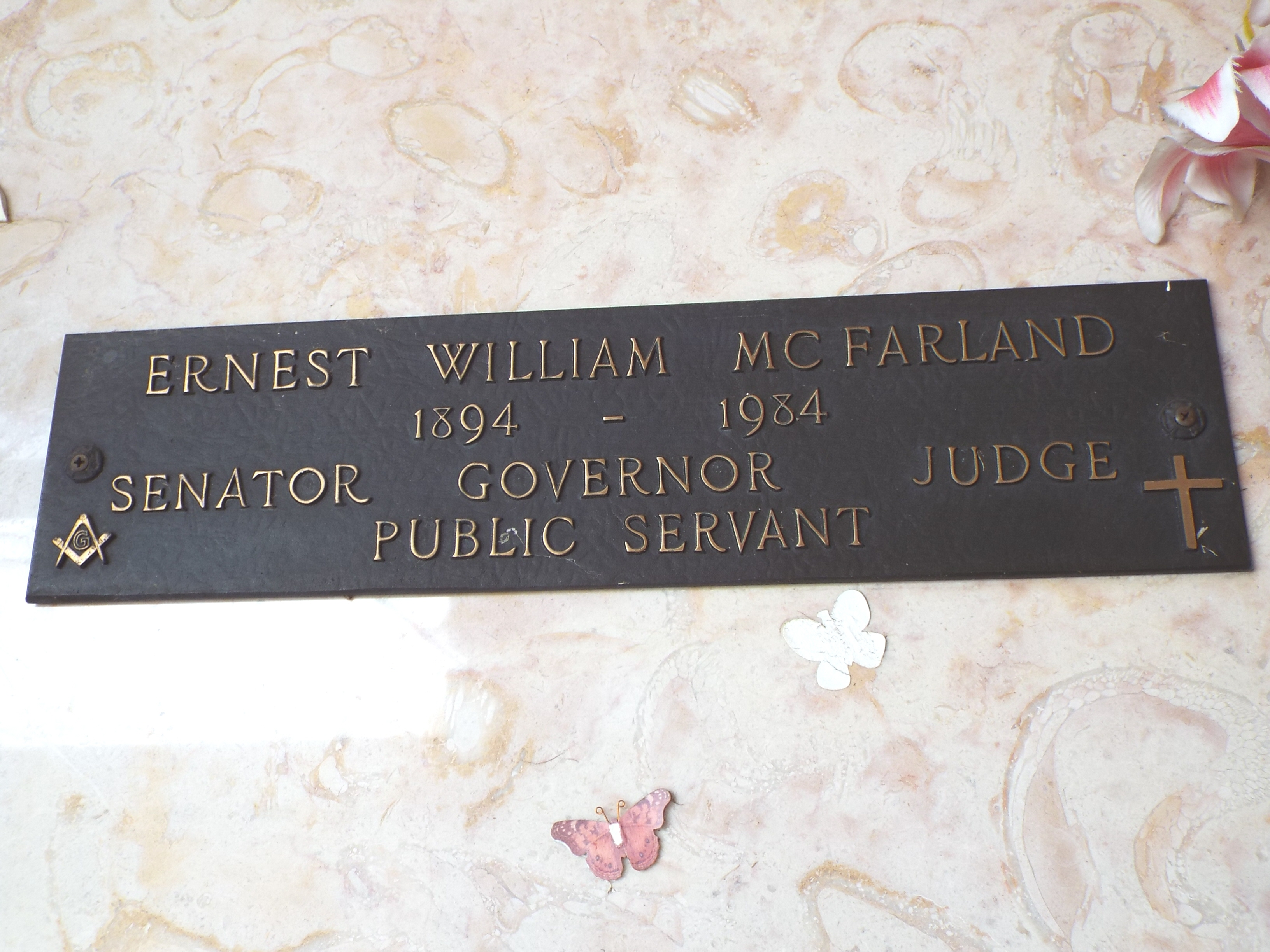 Crypt of Ernest William McFarland (October 9, 1894 - June 8, 1984). McFaland served as U.S. Senator (1941 - 1953), the 10th Governor of Arizona (1955-1959) and Arizona Supreme Court Justice (1968).